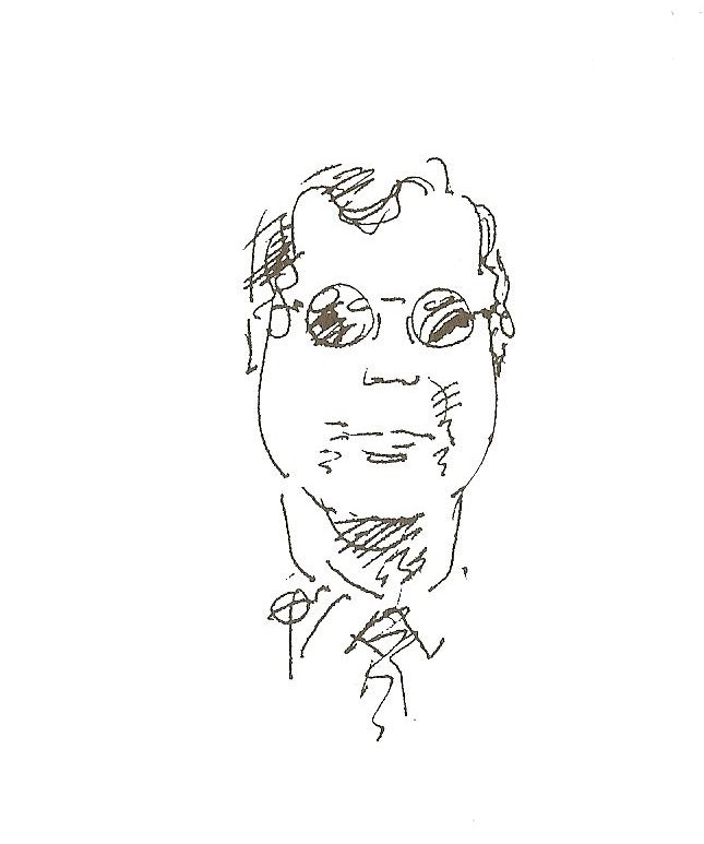 Charles Simic. Drawing by Zoran Tucić used in the book of interviews, Razgovori (Conversations, 1999), by Dejan Stojanović.